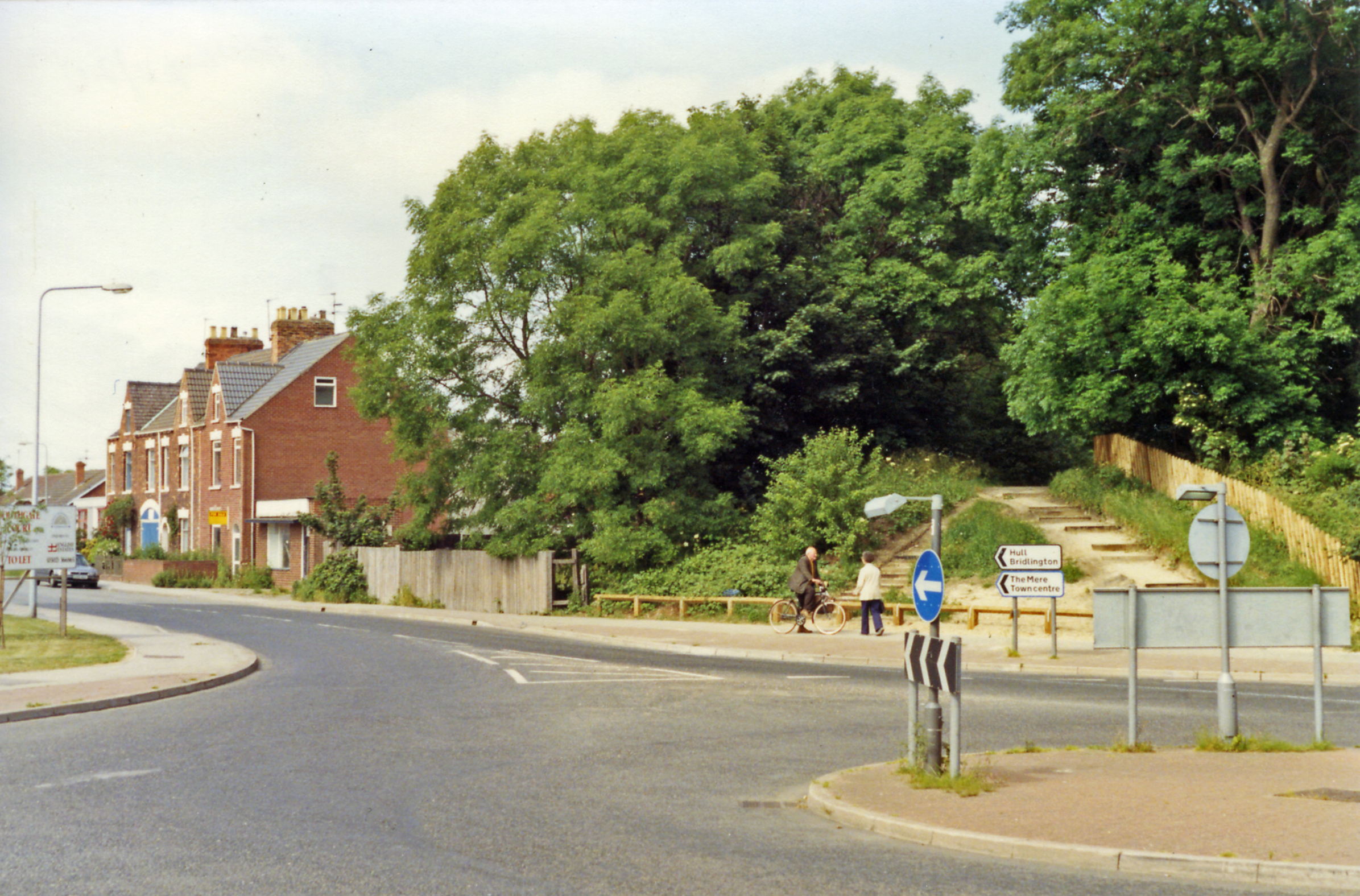 Site of Hornsea Bridge station, 1992.Hornsea, East Riding of Yorkshire, England. View northward, towards the terminus in the town centre: ex-NER line from Hull, closed 19/10/64